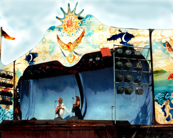 Nambassa 1979: Negative Theatre performing on main stage Image (photograph) taken by Official Nambassa Photographer and uploaded by User:StoneHenge007, Nambassa dot com Terms of Use: 1/ All users of this image are required to attribute this work to "Nambassa Trust and Peter Terry" and the URL: " " is to accompany all use. 2/ Attribution. You must attribute the work in the manner specified by the author or licensor. 3/ For any reuse or distribution, you must make clear to others the license terms of this work. Statement by Nambassa Trust and Peter Terry